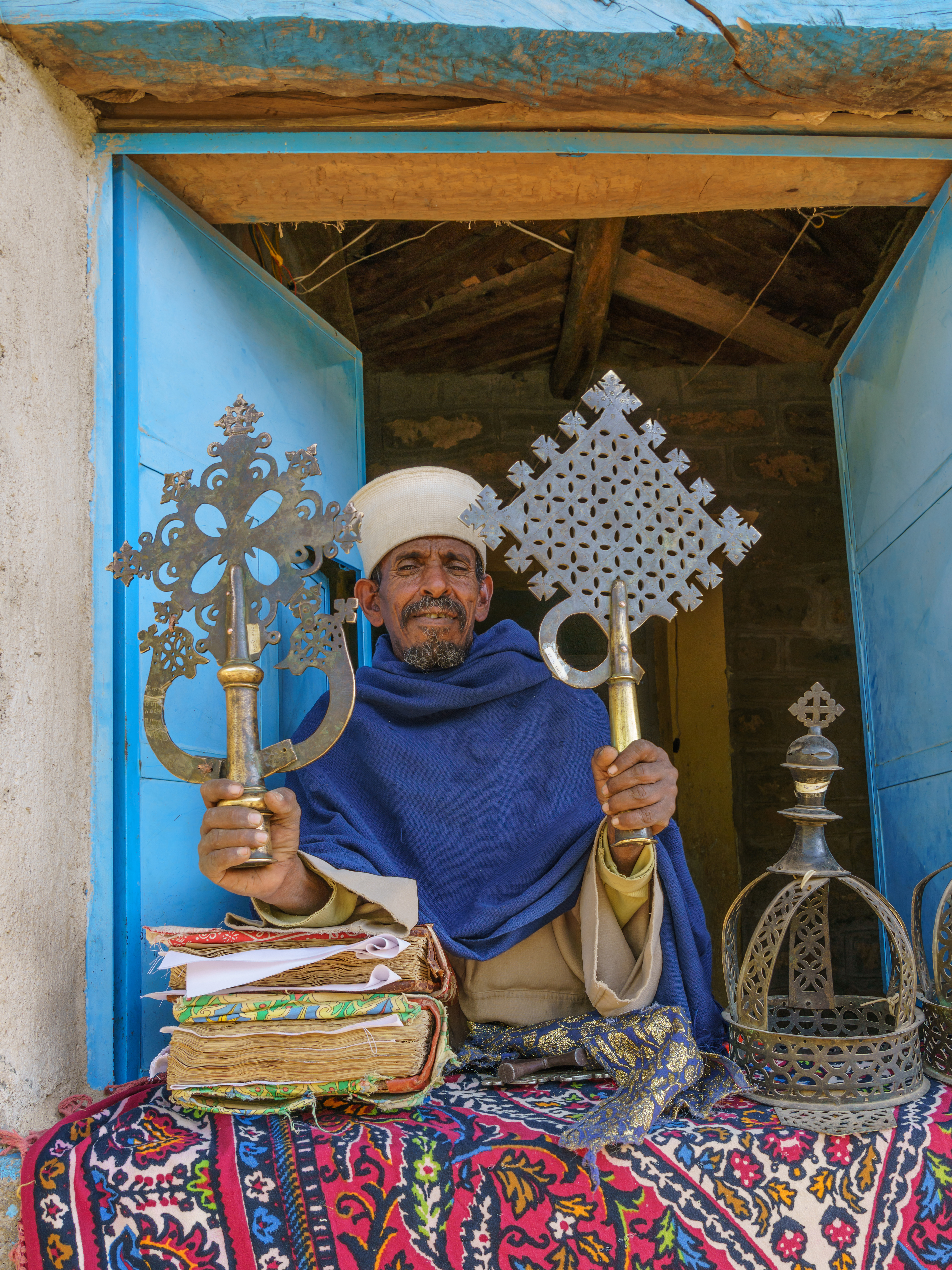 Abba Pentalewon Monastery in Aksum, Tigray Region, Ethiopia